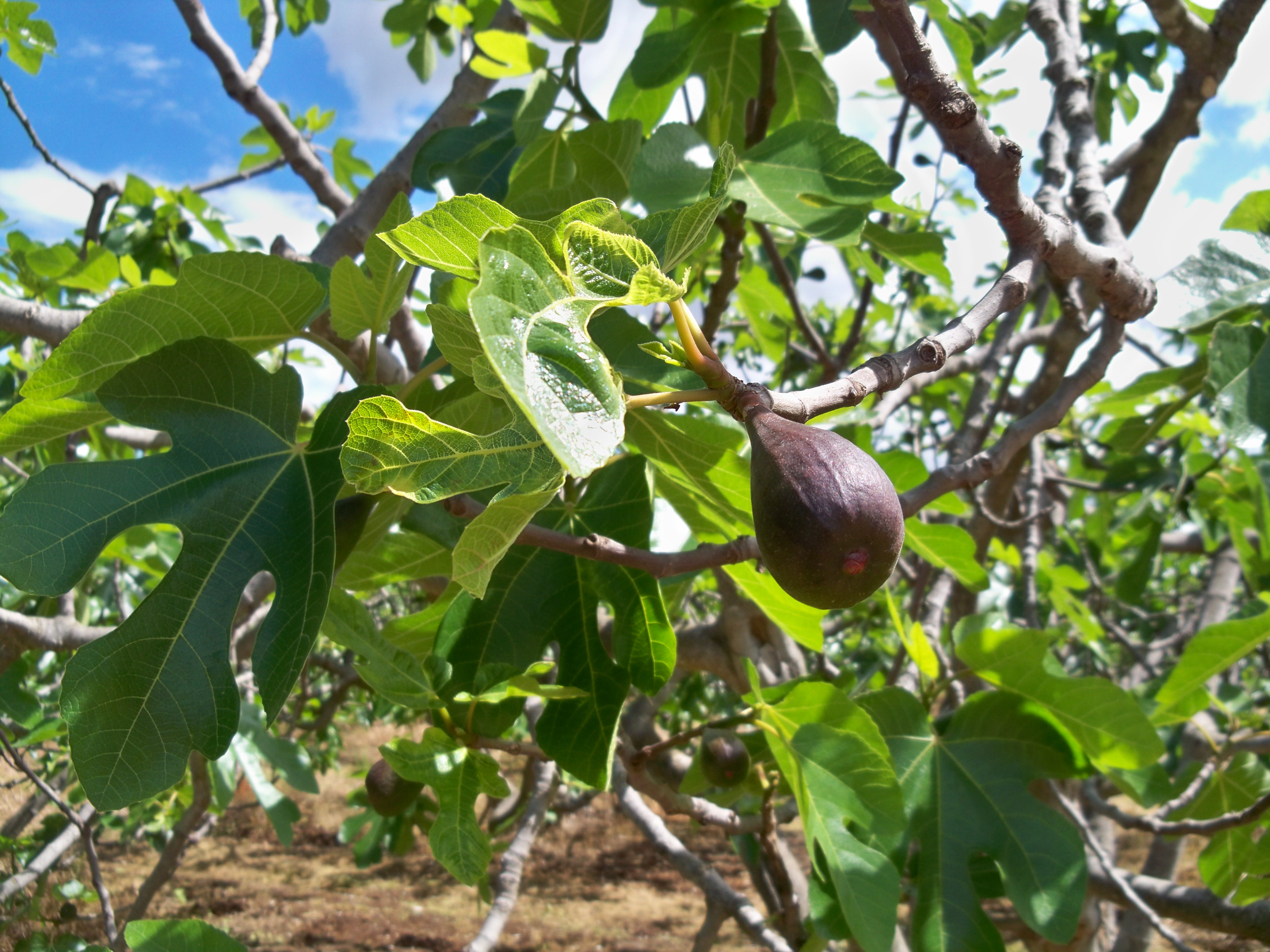 Long black fig Caromb in a fig tree fields between Vacqueyras , Beaumes -de-Venise and Sarrians, Vaucluse